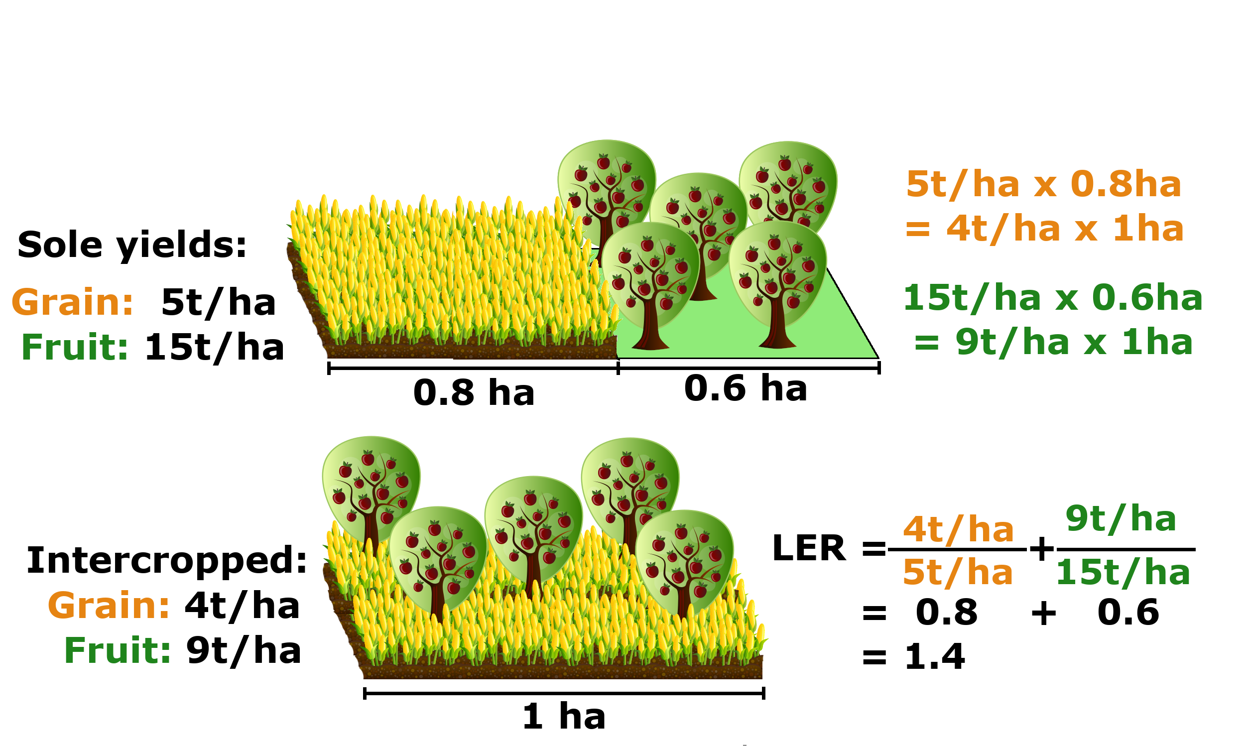 This is an illustration of the concept of land equivalent ratio (LER), defined as "the ratio of the area under sole cropping to the area under intercropping needed to give equal amounts of yield at the same management level. It is the sum of the fractions of the intercropped yields divided by the sole-crop yields." In this graphic, it is illustrated using an example of intercropping a grain and a fruit crop.